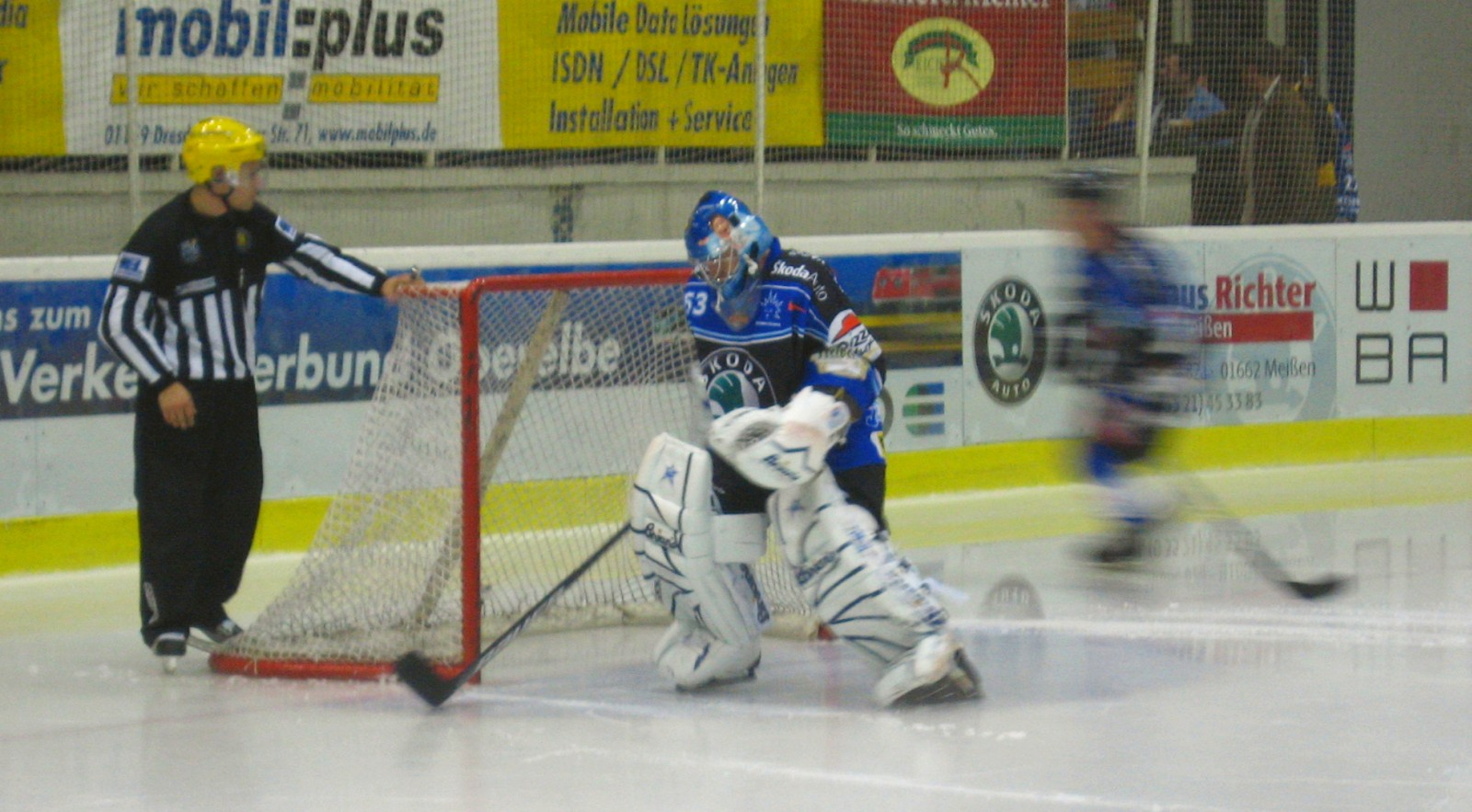 Marek Mastíč, ice hockey goaltender of the Dresden Ice Lions, 01. Sept. 2006